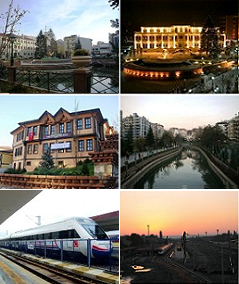 Collage of Eskişehir city